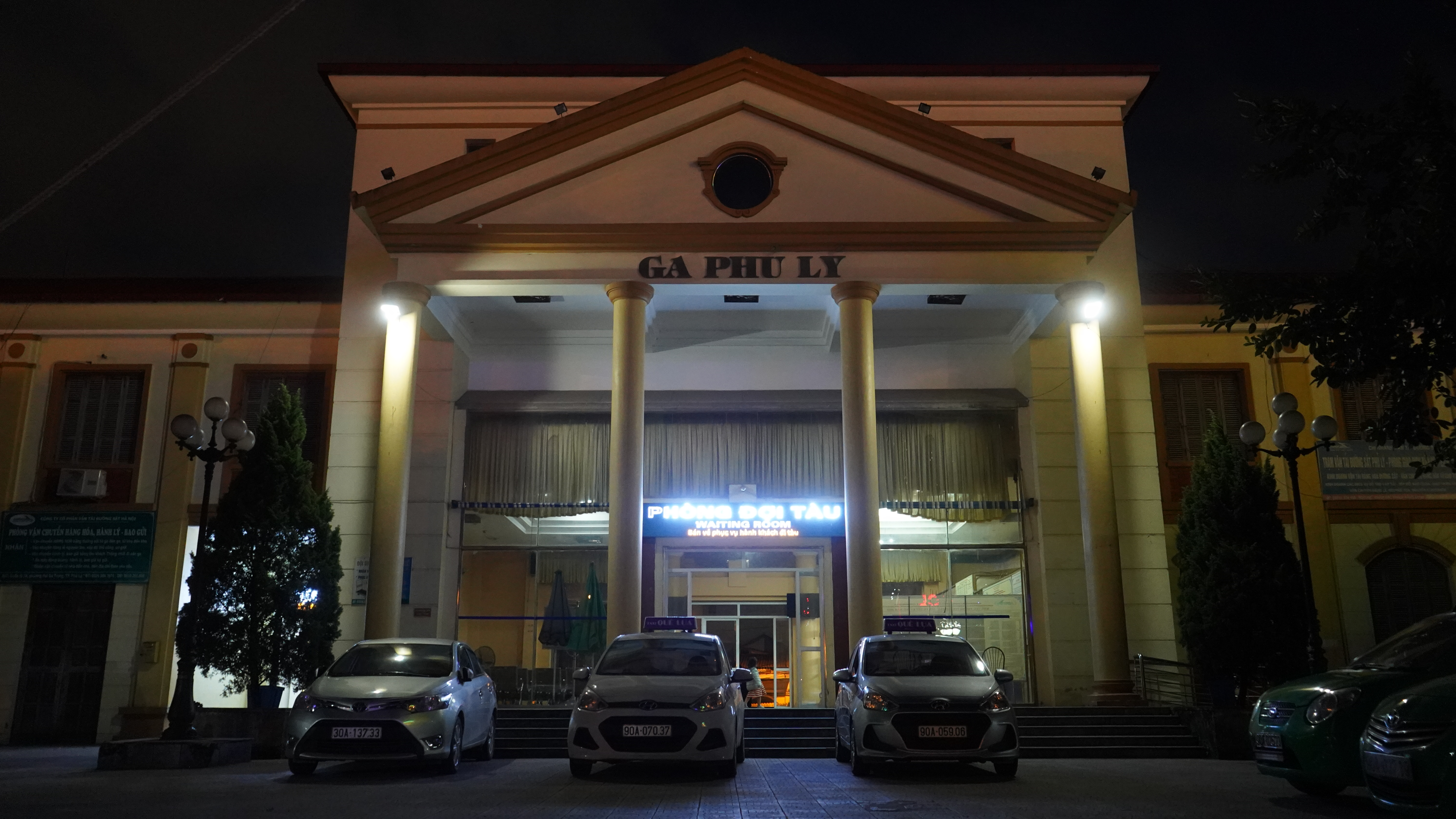 Phu Ly Railway Station (Nov 18, 2018)